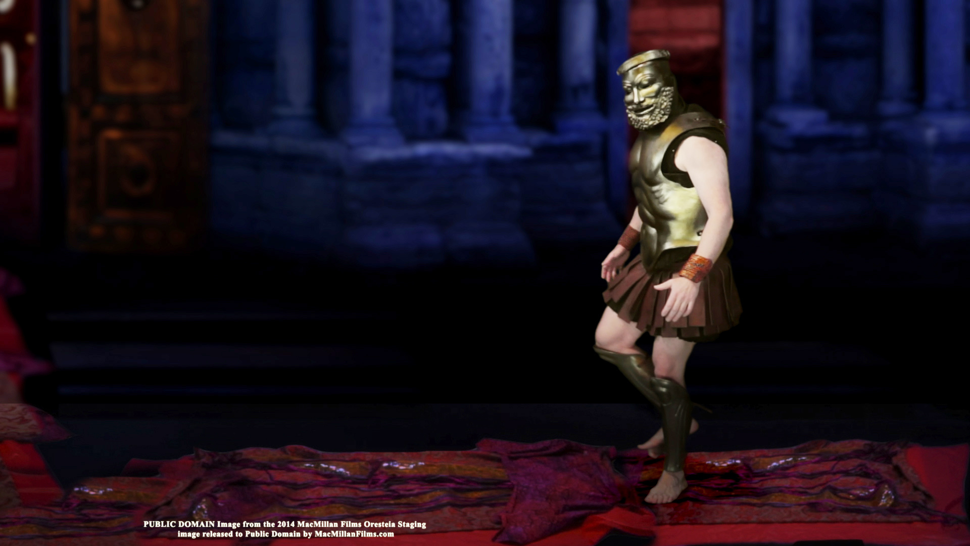 In Agamemnon (the first play of three in the Oresteia) Agamemnon is persuaded to walk on peplos garments in this pivotal scene of the drama. This is a still from the MacMillan Films 2014 production of the Oresteia.